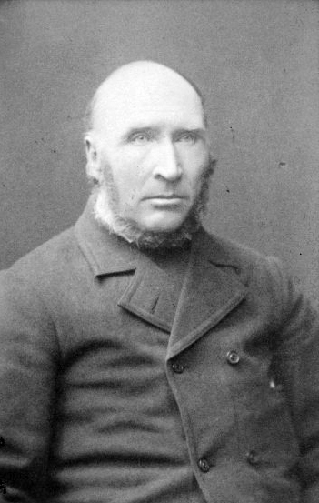 Photograph of the Finnish politician Carl Johan Slotte (1827–1903).